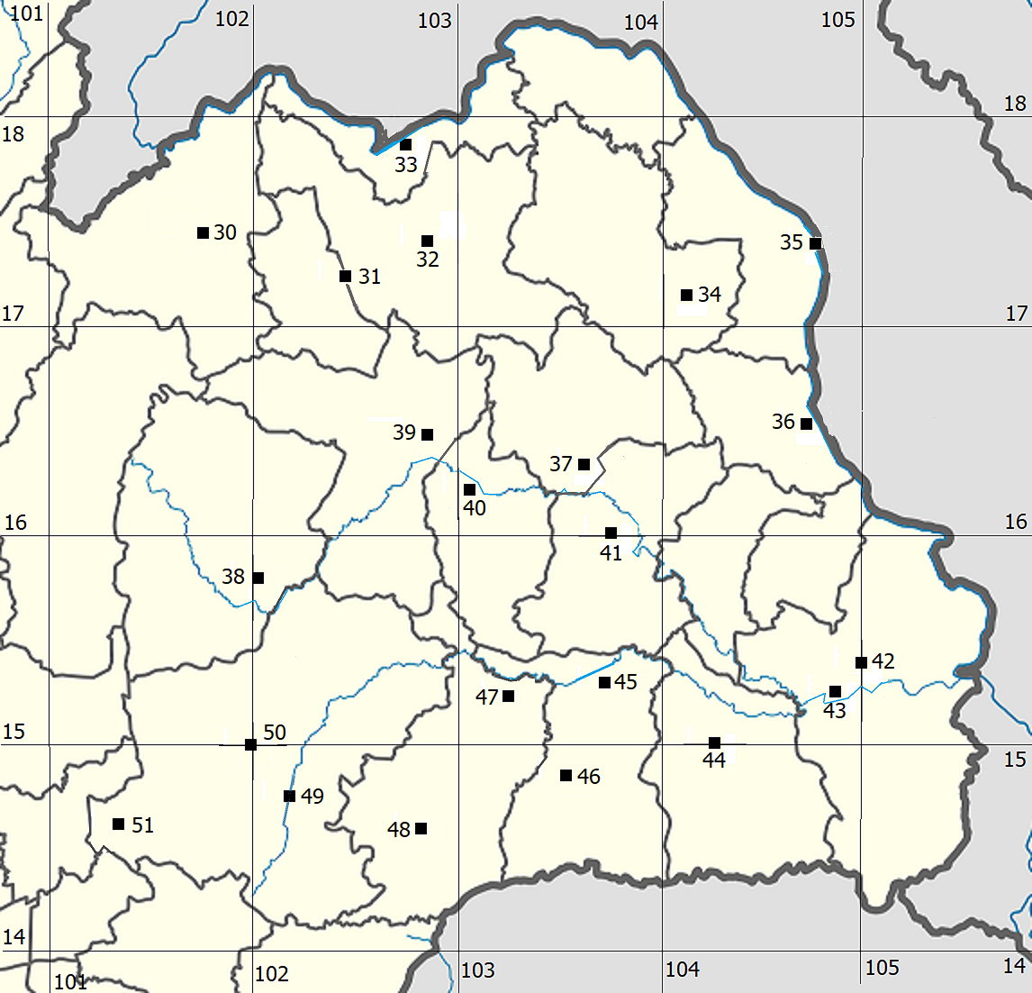 Northeast Thailand with 22 weather stations